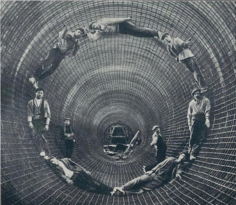 Interior de un tubo del Sifón de Albelda, obra singular del canal de Aragón y Cataluña